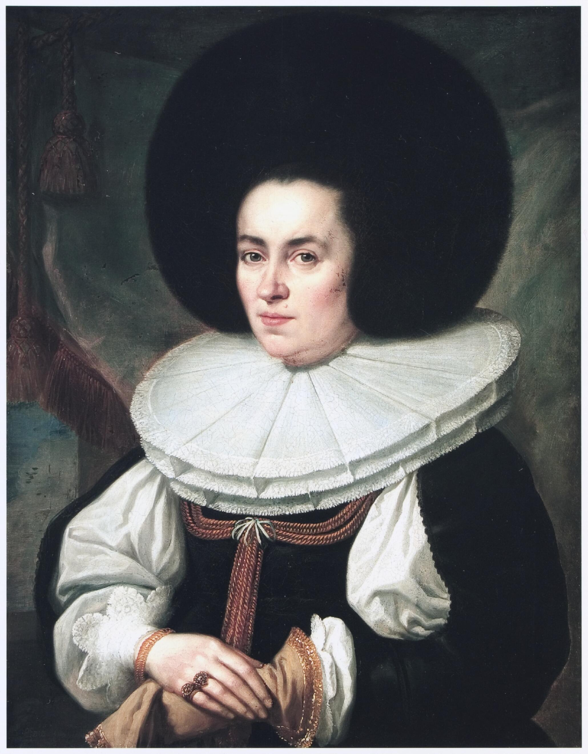 Portrait Of A Lady by Pieter Nijs or Nys (April 15, 1624 – June 16, 1681) a Dutch Golden Age painter. This image is available from the Netherlands Institute for Art Historyunder digital ID 104822. This tag does not indicate the copyright status of the attached work. A normal copyright tag is still required. See Commons:Licensing.